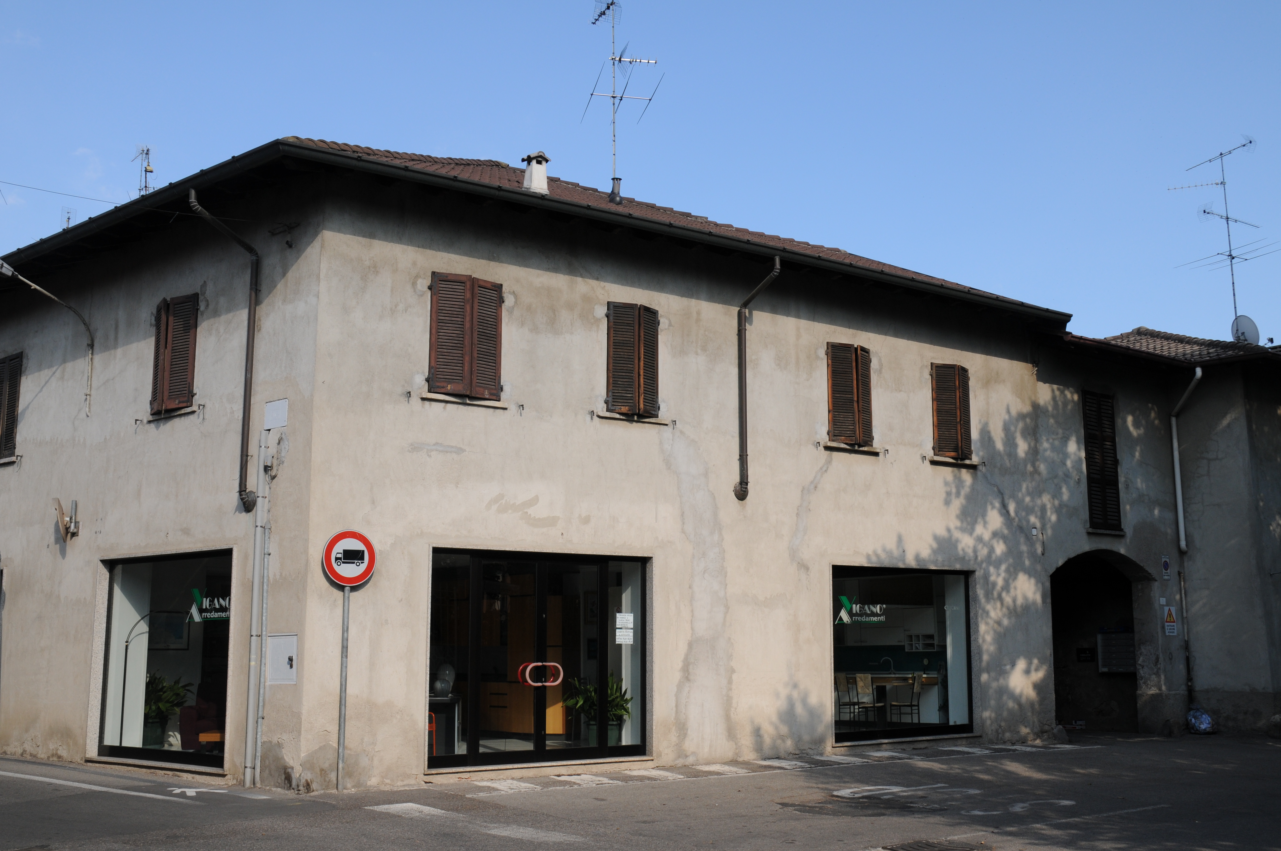 Farmhouse in San Giorgio su Legnano (Italy)